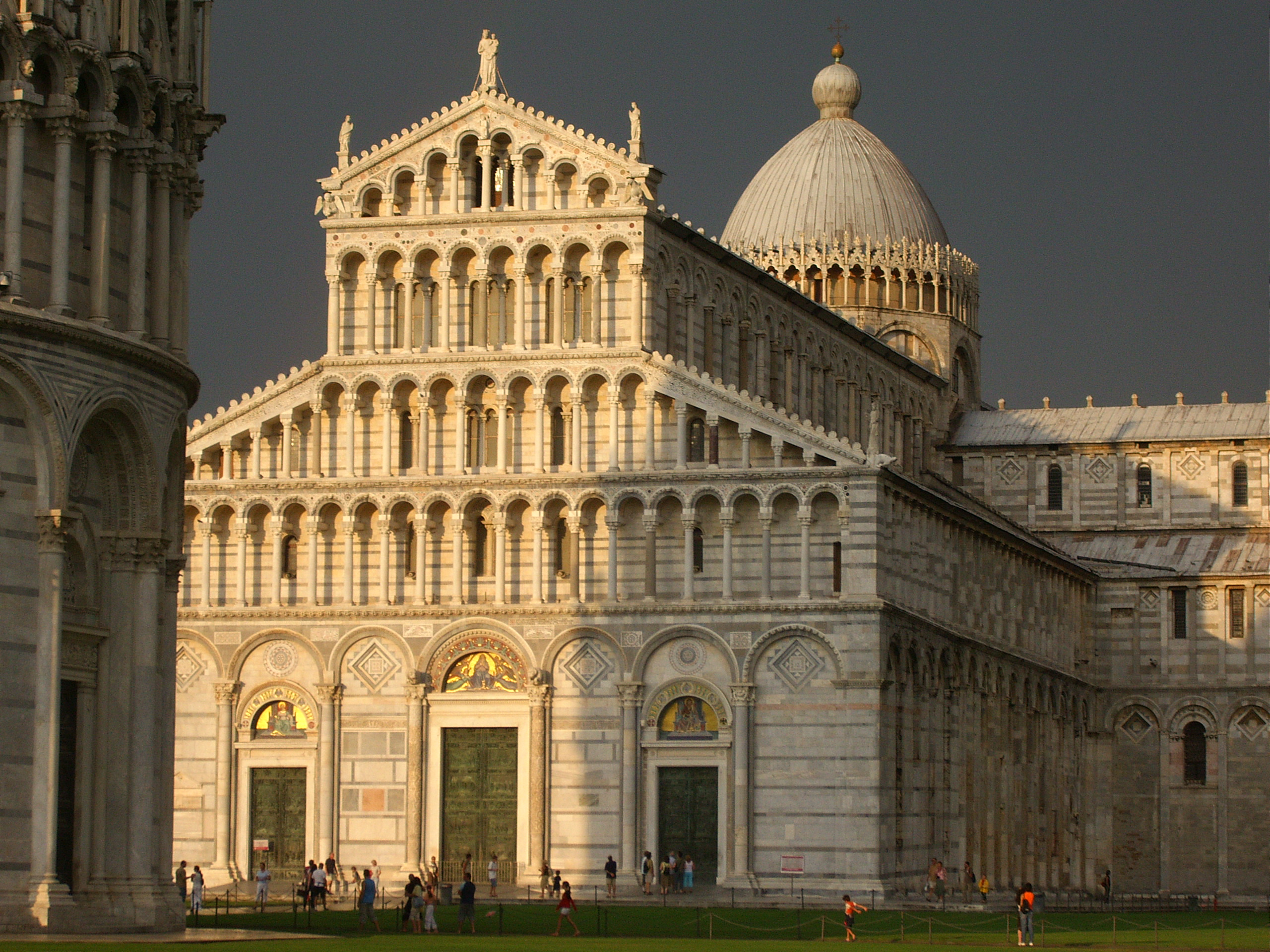 Exterior of the Cathedral (Pisa)